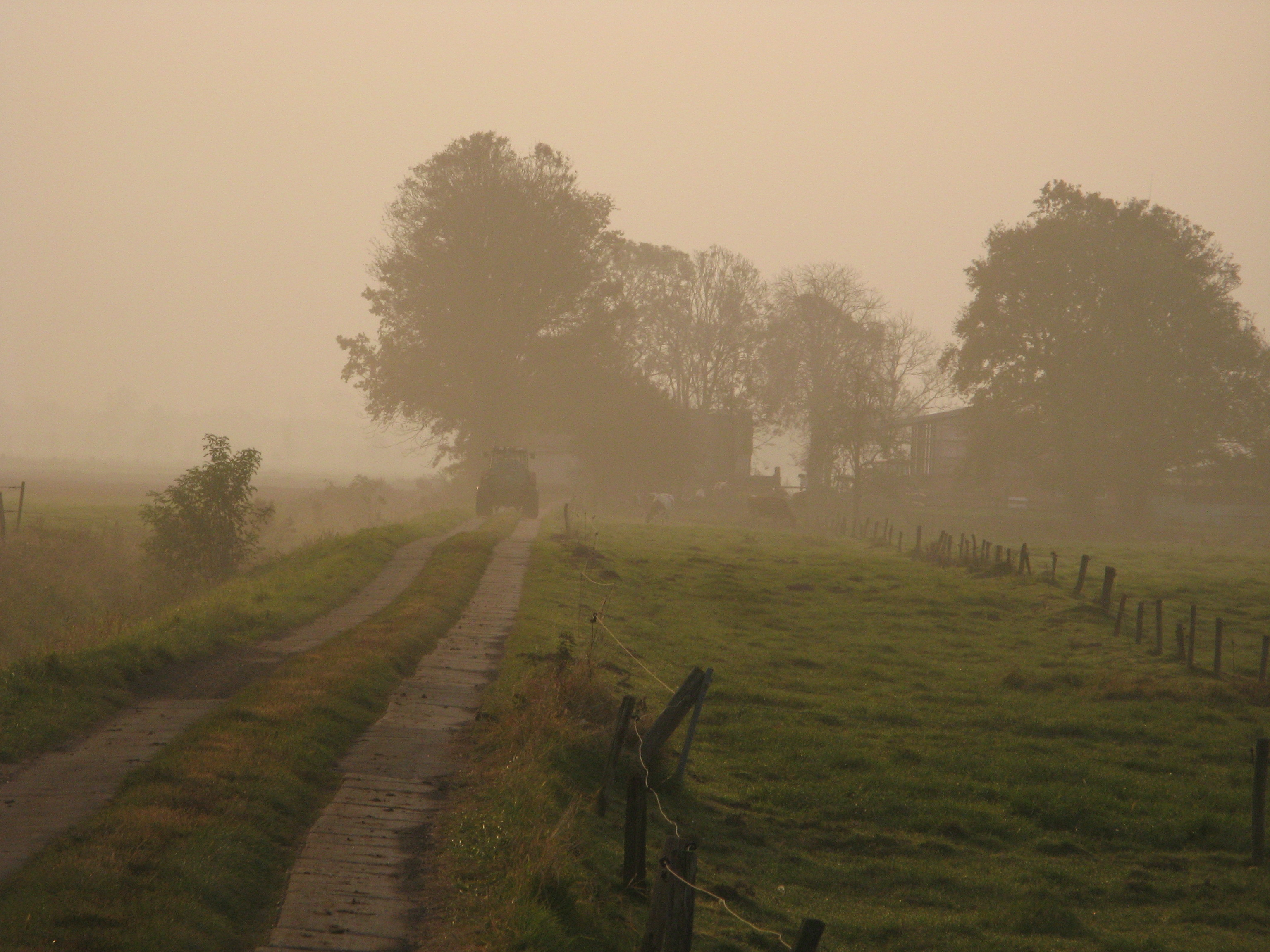 Tractor on the fields in Moordorf, Kreis Steinburg, Schleswig-Holstein, Germany.